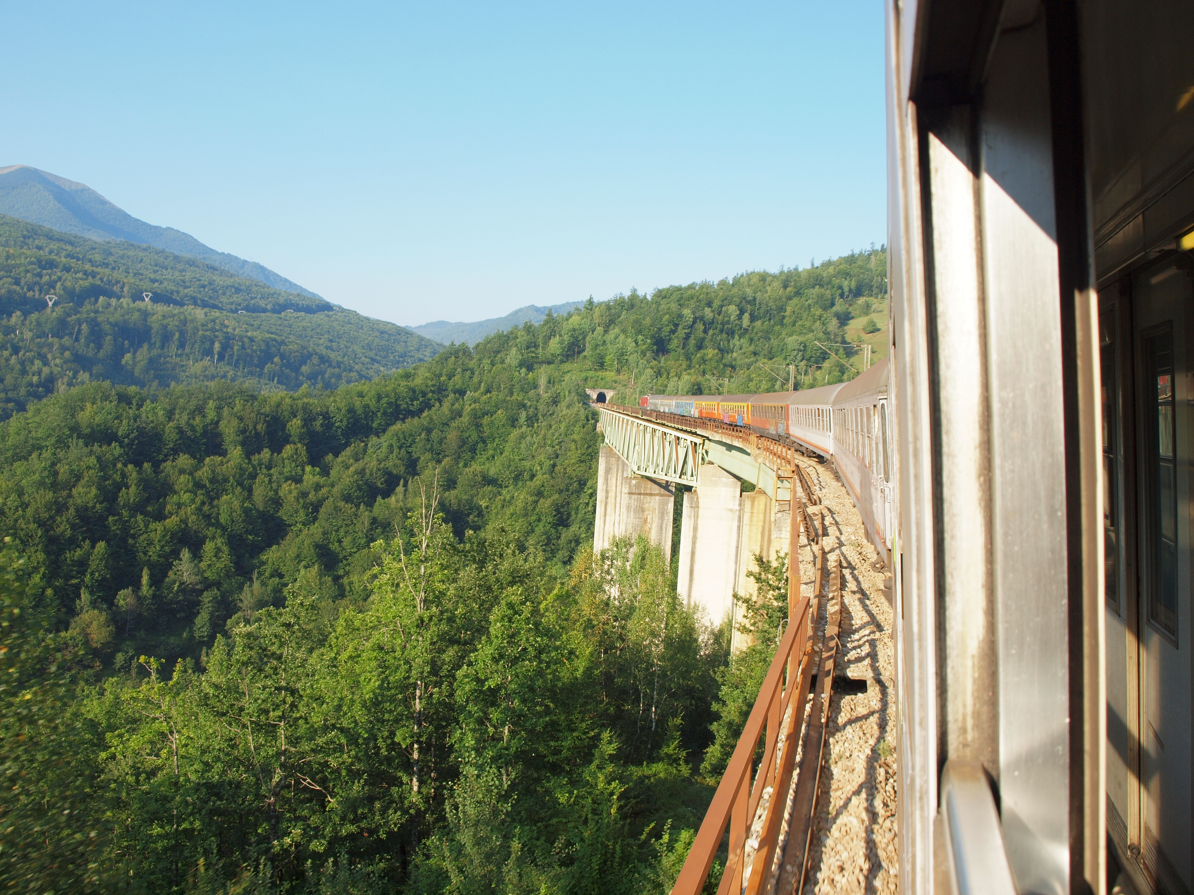 Belgrade Bar railway Lim valley